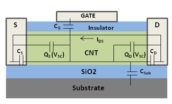 CNTFET structure